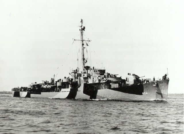 The U.S. Navy destroyer escort USS Eversole (DE-404) off Boston, Massachusetts (USA), on 20 May 1944. She is painted in Camouflage Measure 31 , Design 2C.